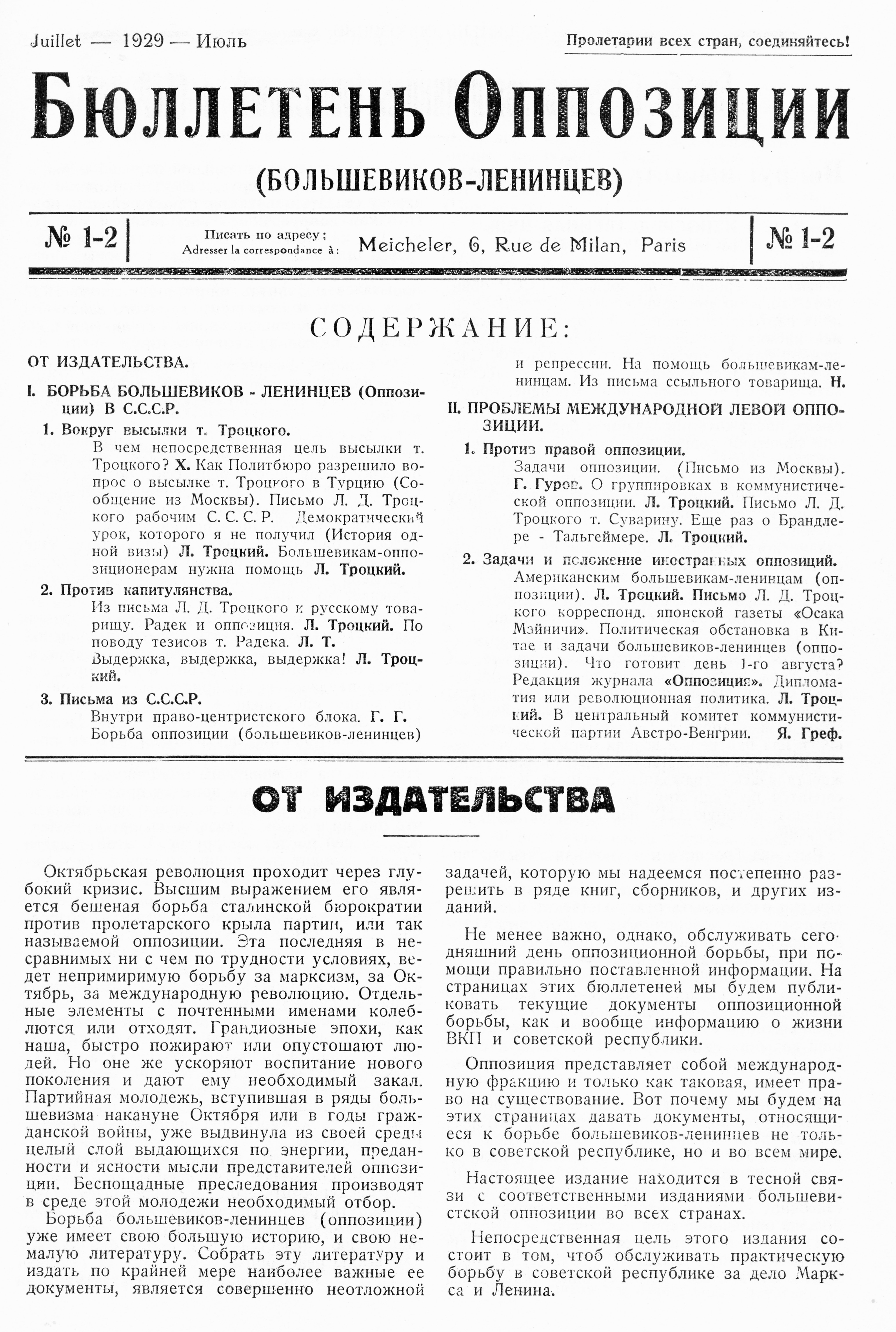 Bulletin of the Opposition, reproduction of the first page of the first issue from July 1929 (issued by L. D. Trockij)